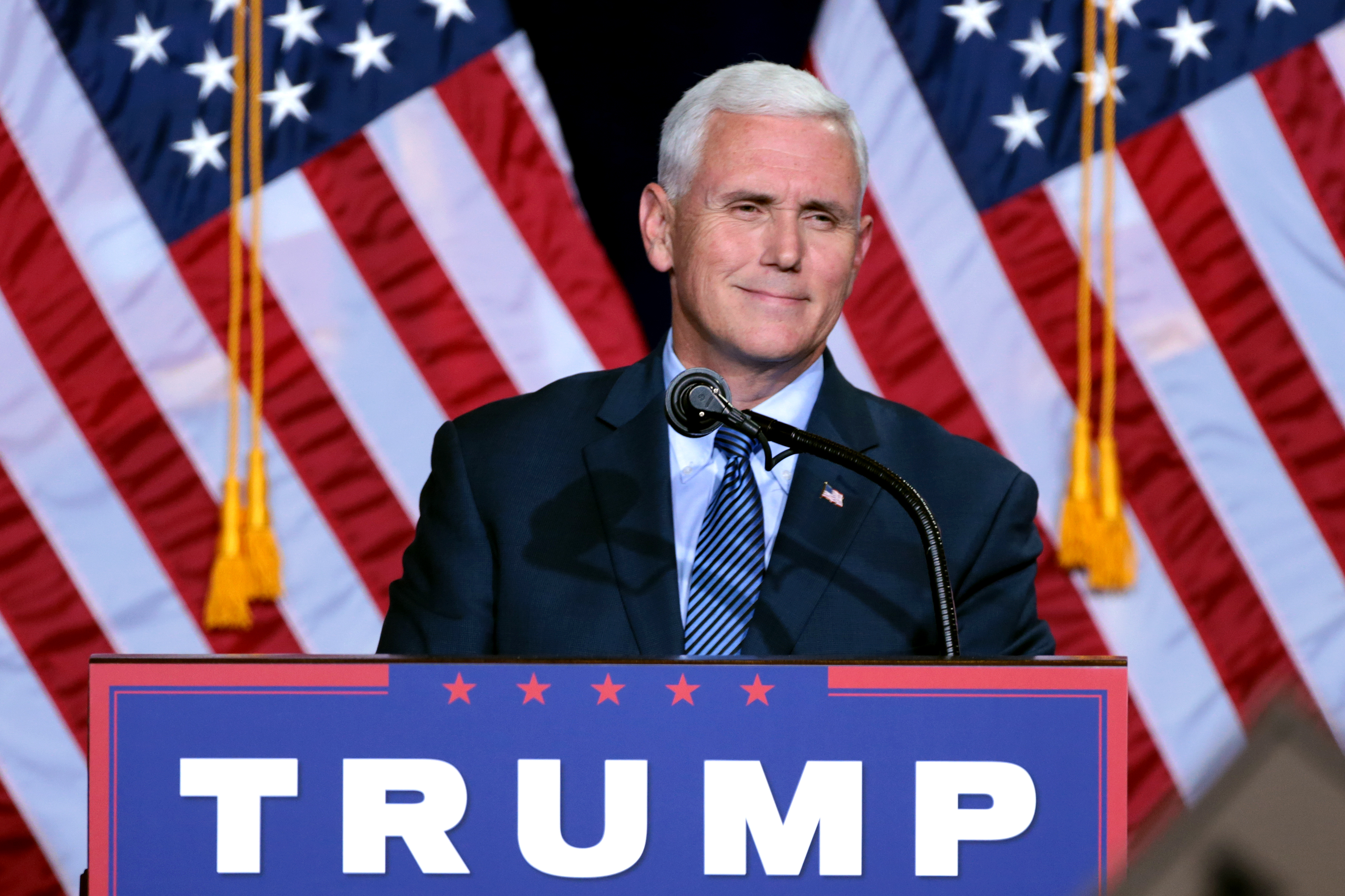 Mike Pence speaking at an immigration policy speech hosted by Donald Trump in Phoenix, Arizona.